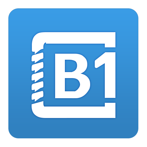 B1 Free Archiver logo